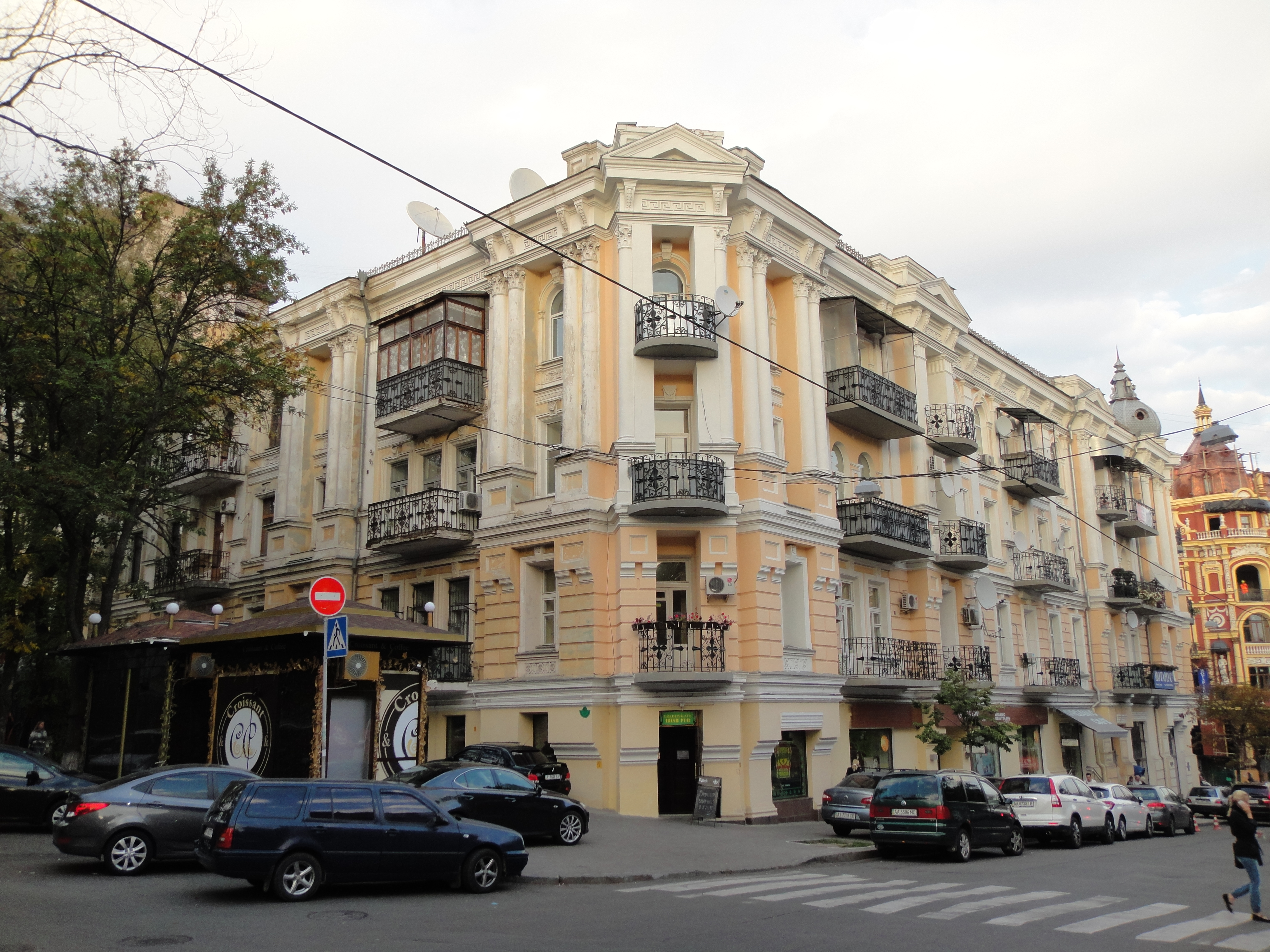 Volodymyrska St., 40/2, Kyiv Profitable house where in 1915 architect Shekhonin N. and in 1918–1919 writer Erenburg I. lived; in 1907-1910 Stelmashenko M. Gymnasium was located. (1898) Protection number № 16-Kv 30.513992,50.449168